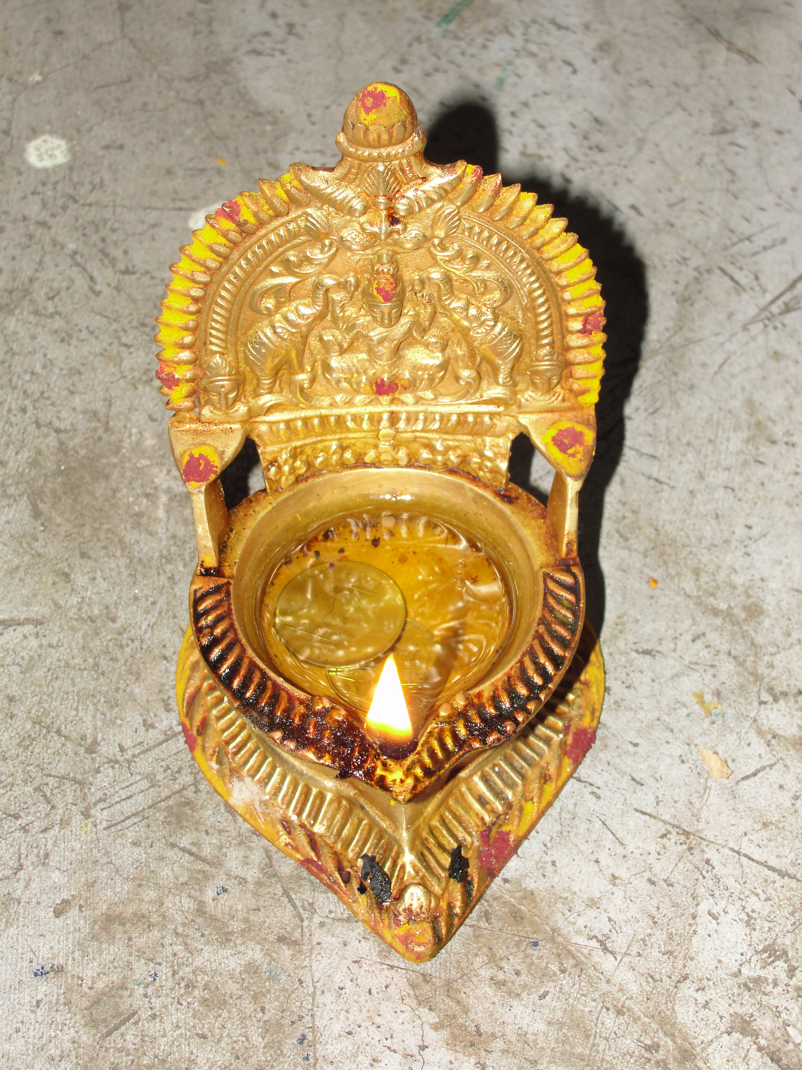 A brass light (Kamatshi light) used by theTamils.